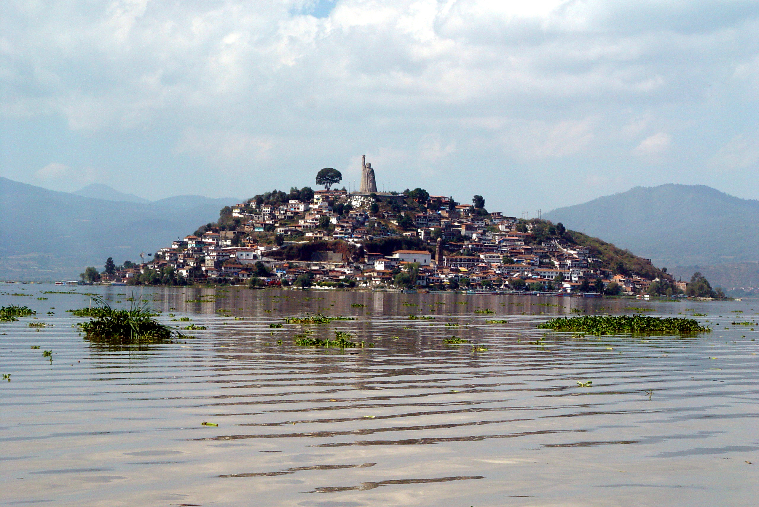 Janitzio Island, Lake Patzcuaro, Michoacan, Mexico